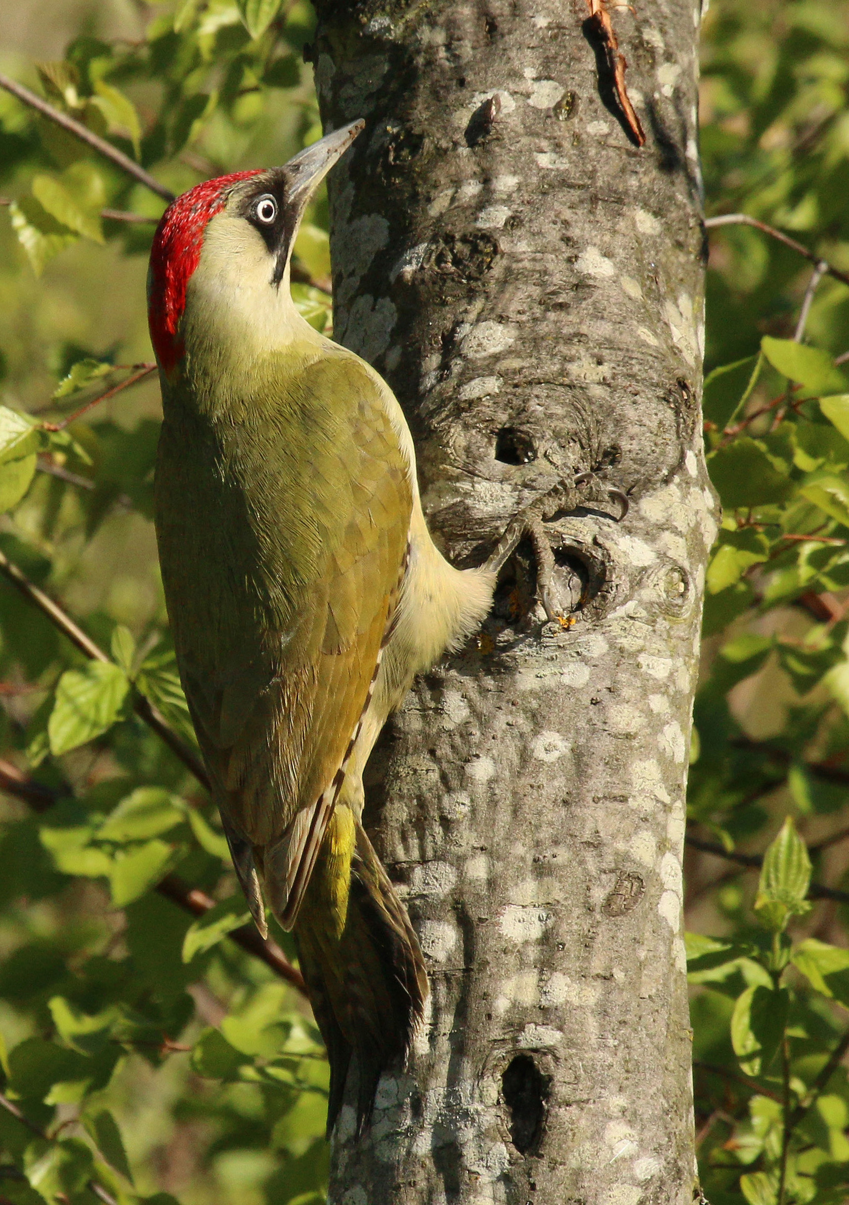 European green woodpecker (Picus viridis) female, WWT London Wetland Centre, Barnes